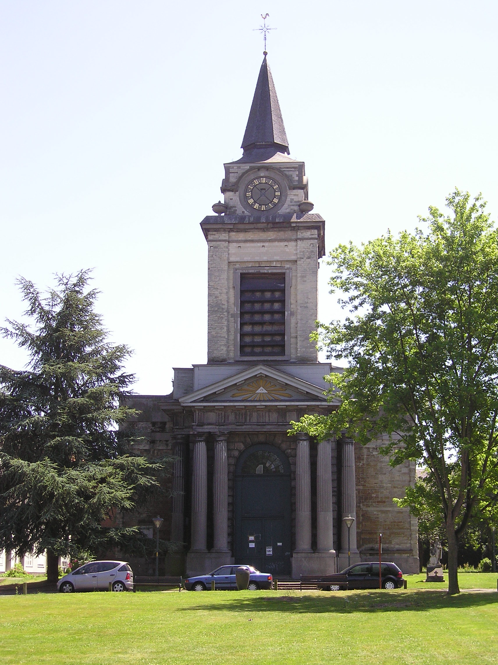 The church of Aalst béguinage.